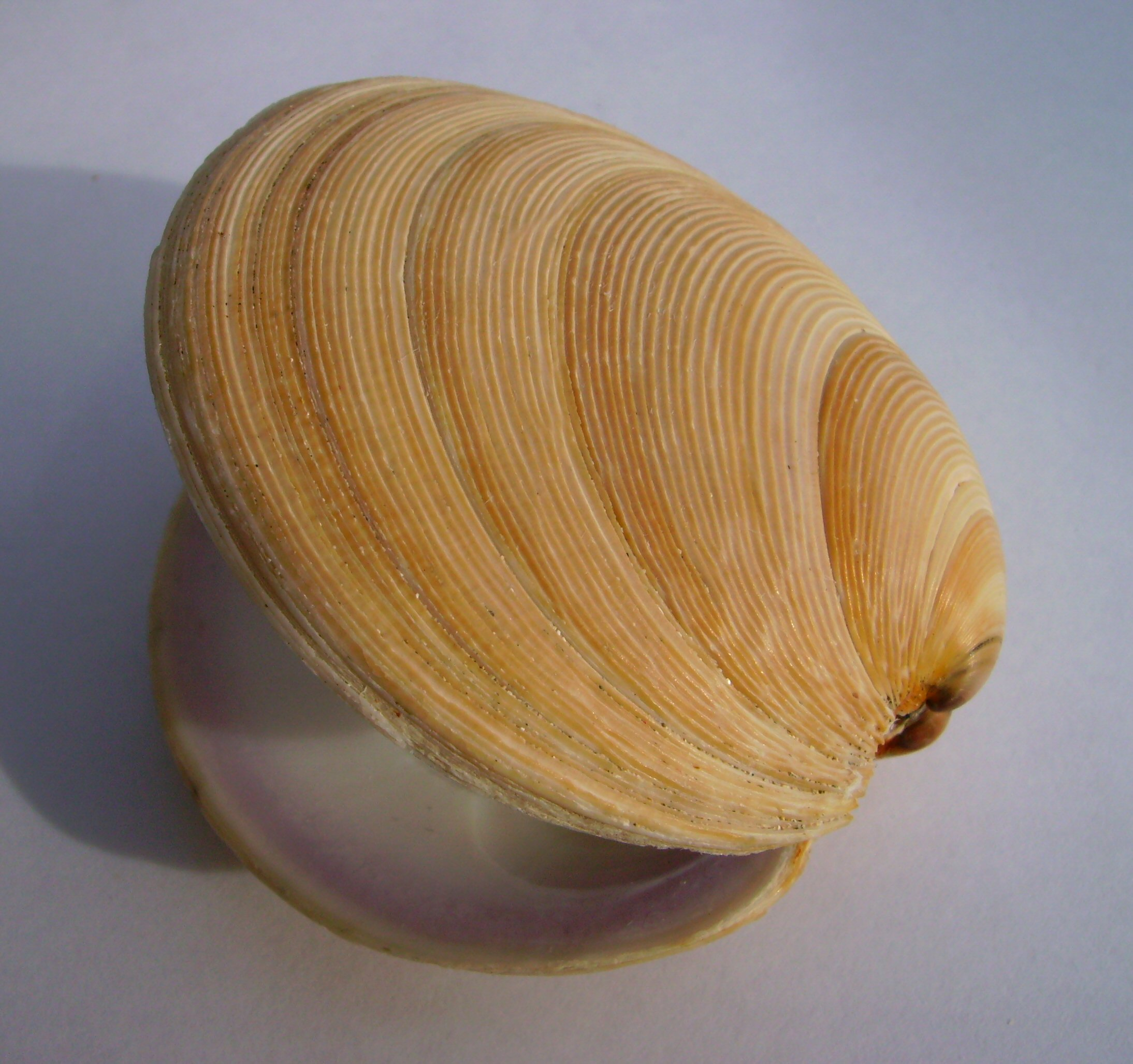 Dosinia anus (ringed dosinia) Takapuna, Auckland, New Zealand. This work has been released into the public domain by its author, Graham Bould. This applies worldwide.In some countries this may not be legally possible; if so:Graham Bould grants anyone the right to use this work for any purpose, without any conditions, unless such conditions are required by law.